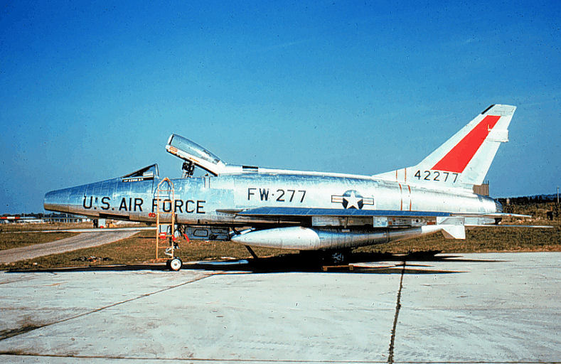 494th Tactical Fighter Squadron - North American F-100D-15-NA Super Sabre - 54-2277